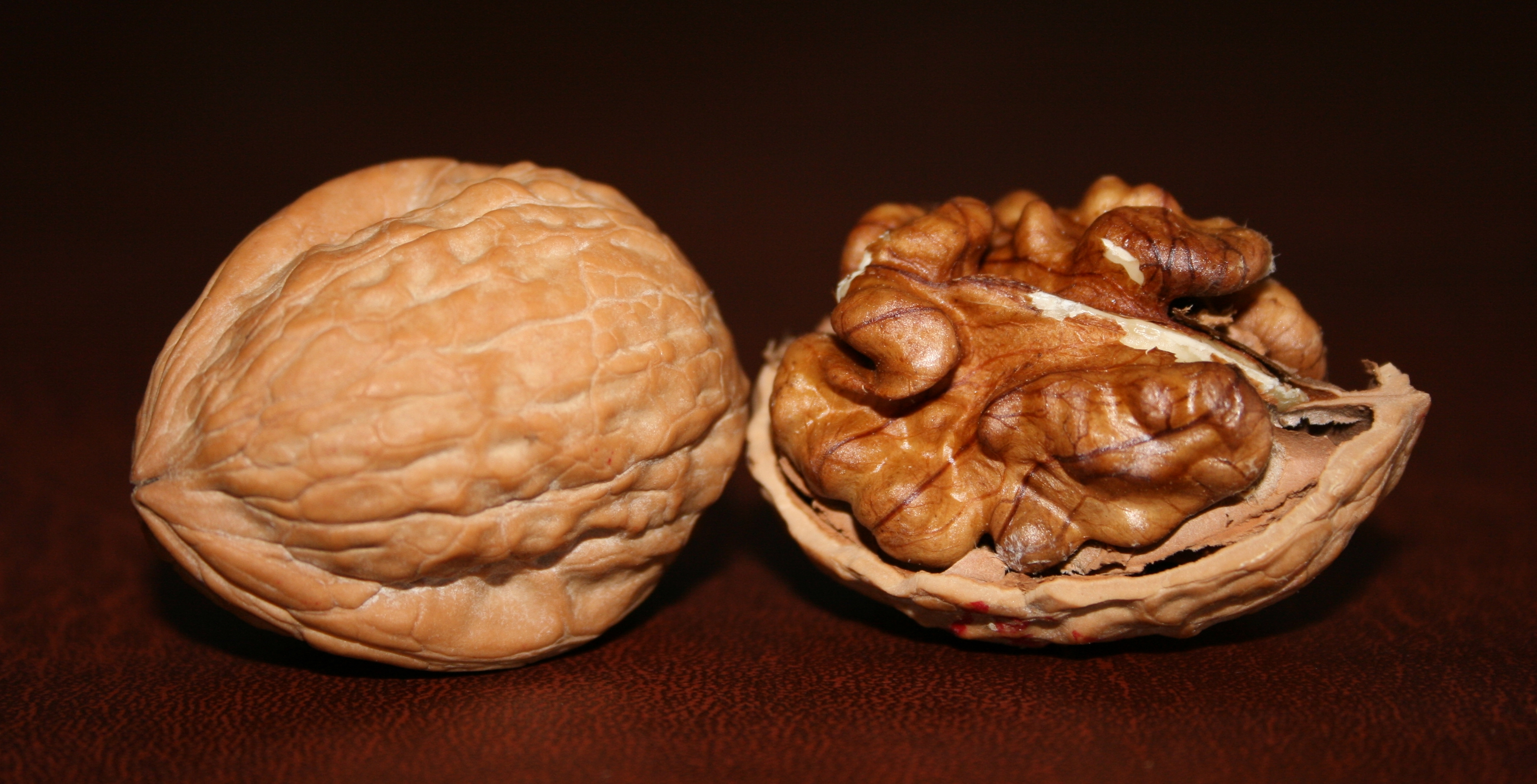 Taken and uploaded by AndonicO.